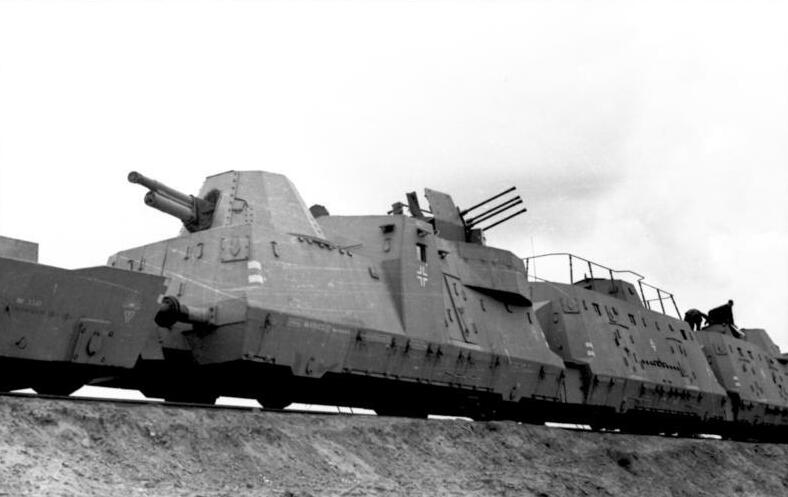 Information added by Wikimedia users.